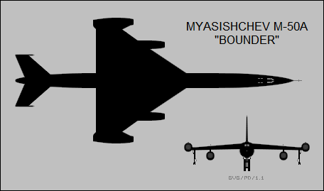 2-view silhouettes of the Myasishchev M-50A "Bounder"